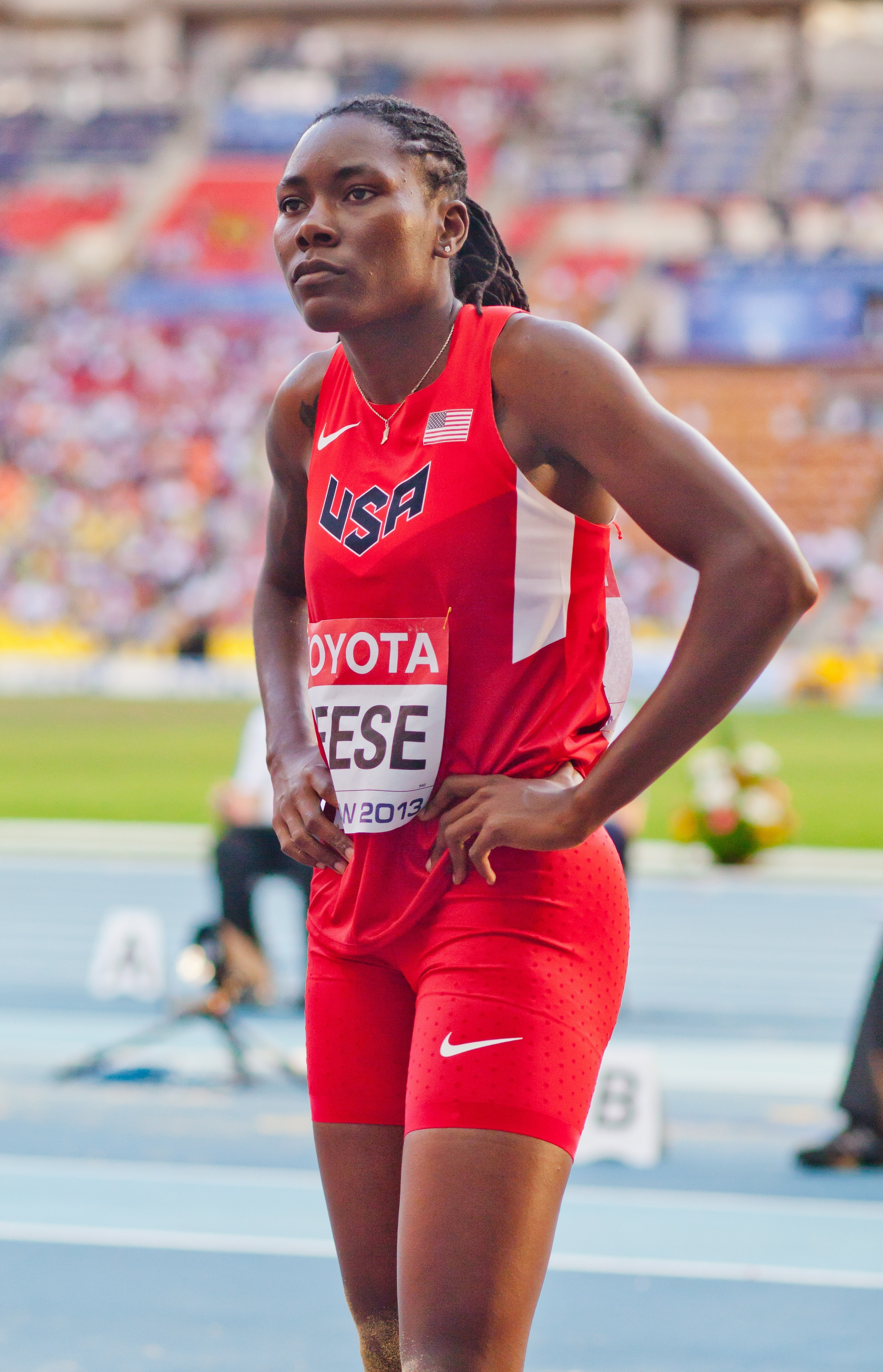 Brittney Reese during 2013 World Championships in Athletics in Moscow.